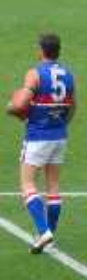 Rohan Smith before a game against Collingwood for the Western Bulldogs in April 2004.